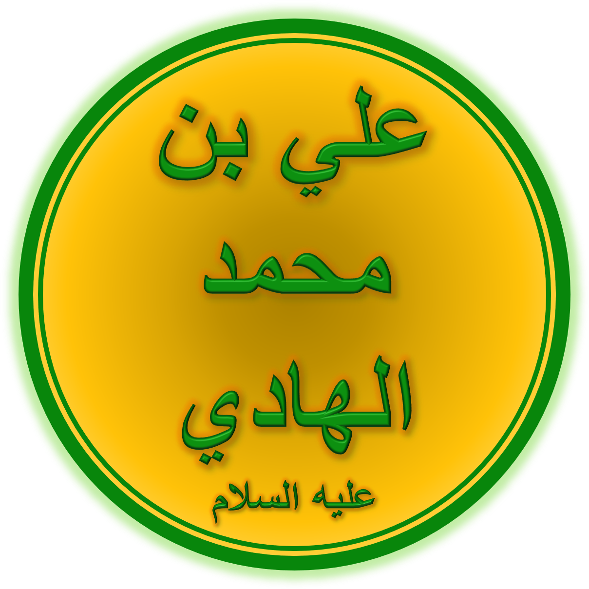 Arabic text with the name and a title of Ali ibn Muhammad al-Hadi